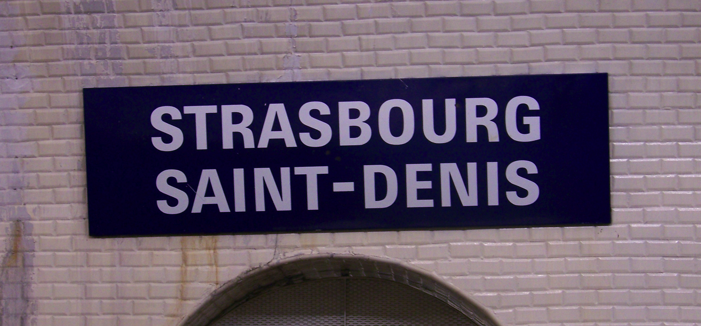 The picture station's of Strasbourg Saint-Denis in Paris